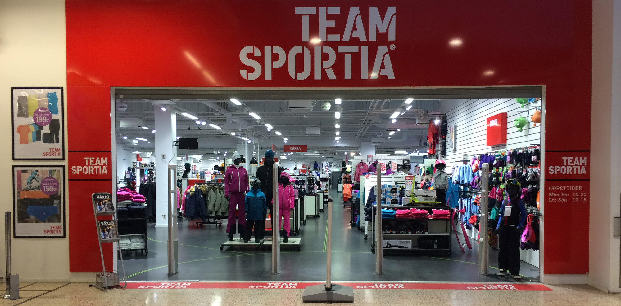 Entré till Team Sportia-butik.